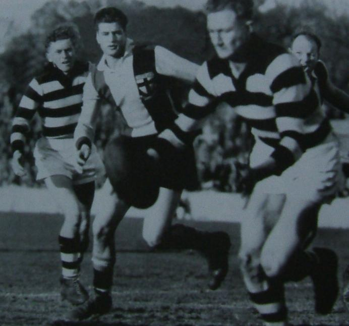 Keith Miller playing for St Kilda